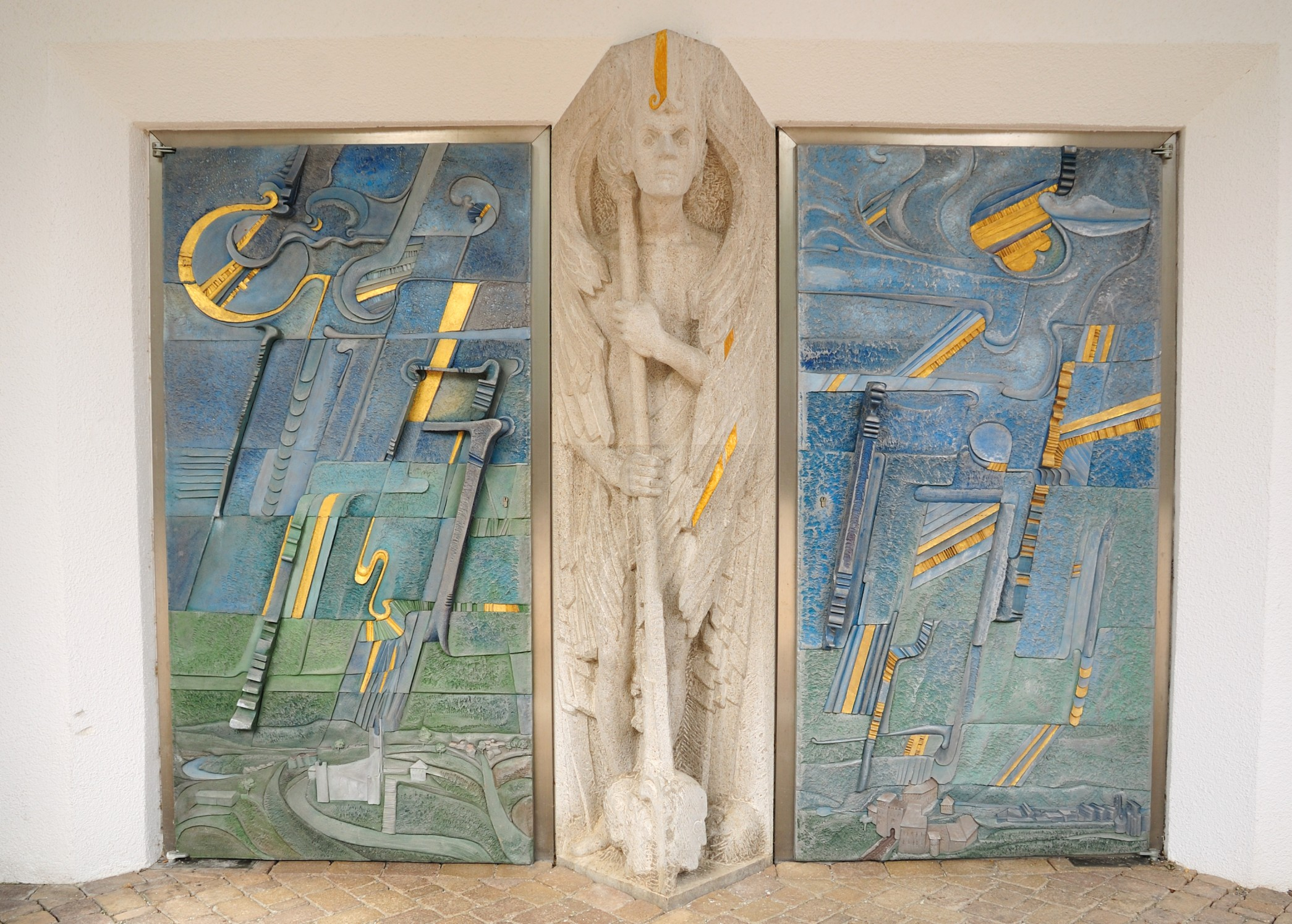 Rheinfelden: Saint Michaels Churchs, porch